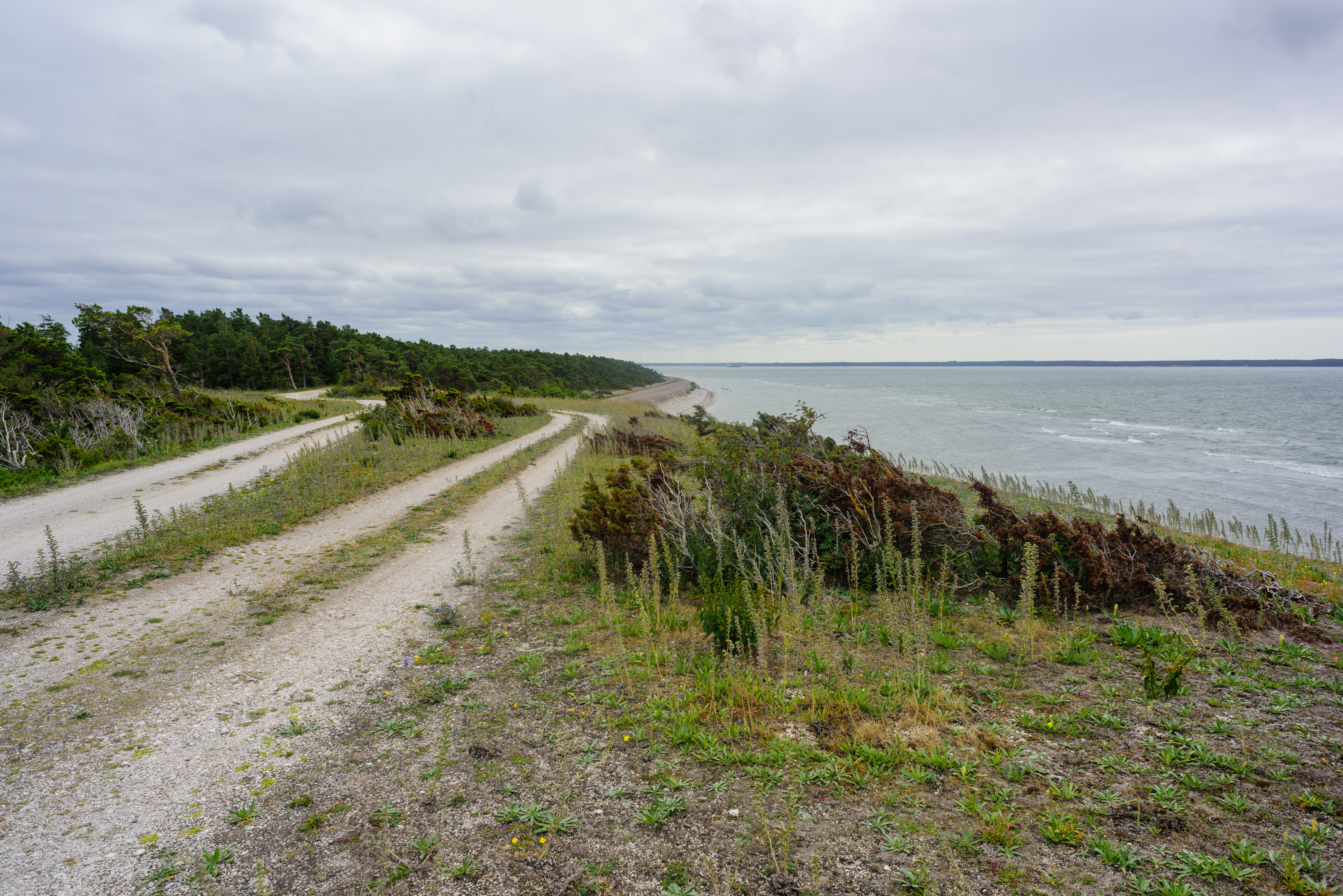 Stenkusten (the Stone coast) is a coastal area at north-eastern Gotland.